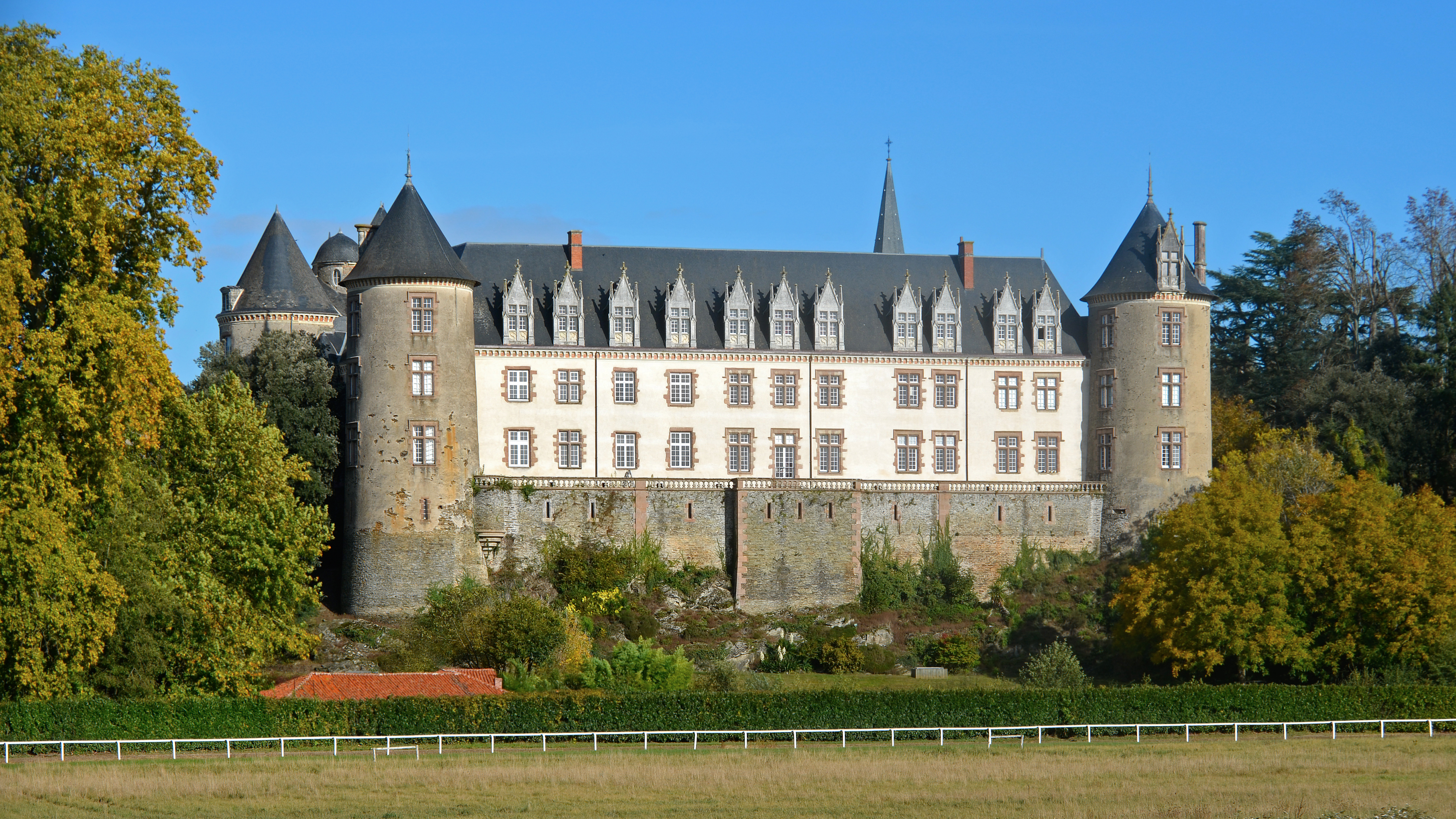 Castle, now flats - Beaupréau - Maine-et-Loire, France